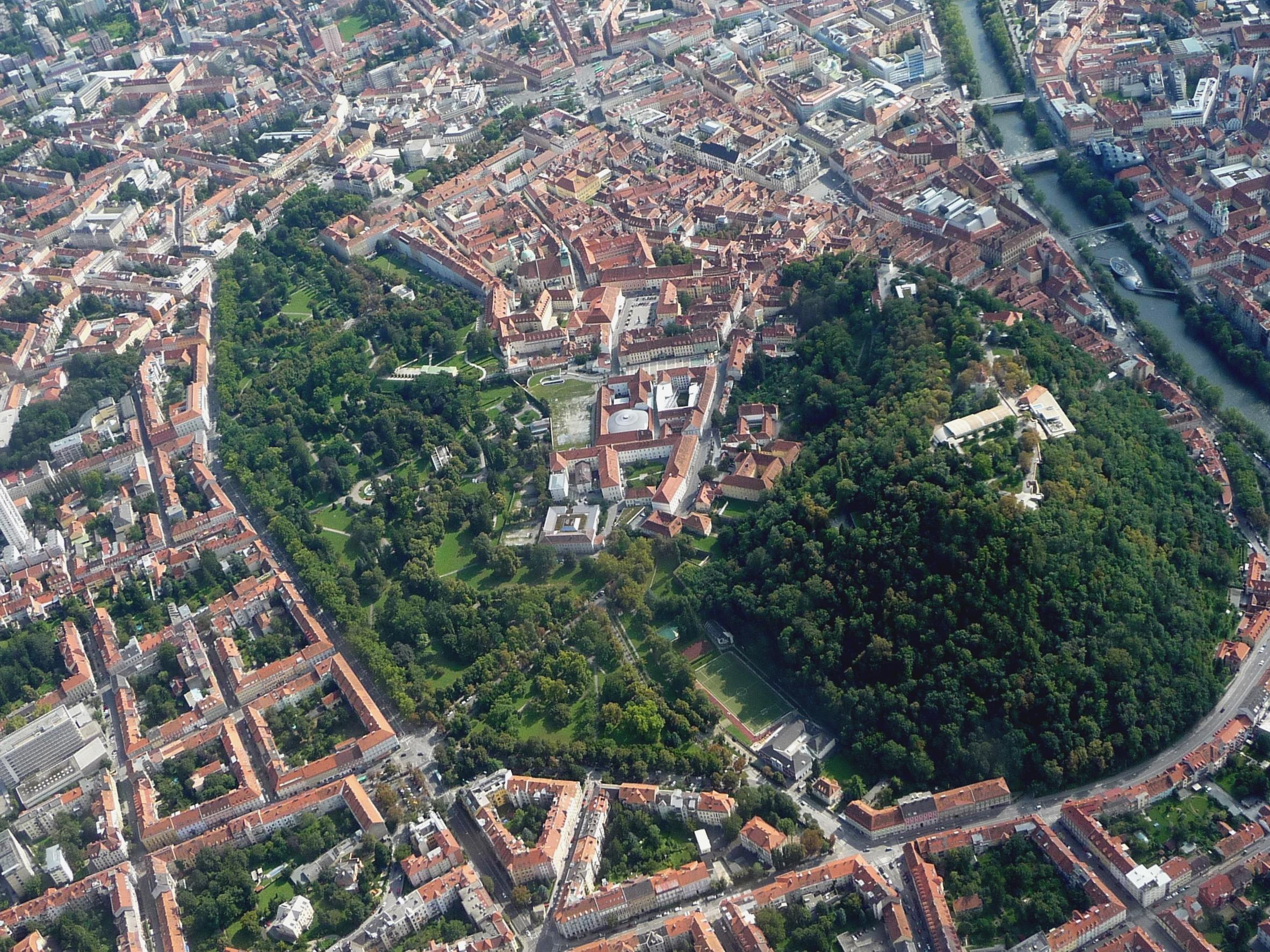 Aerial photography showing the historic city center of Graz